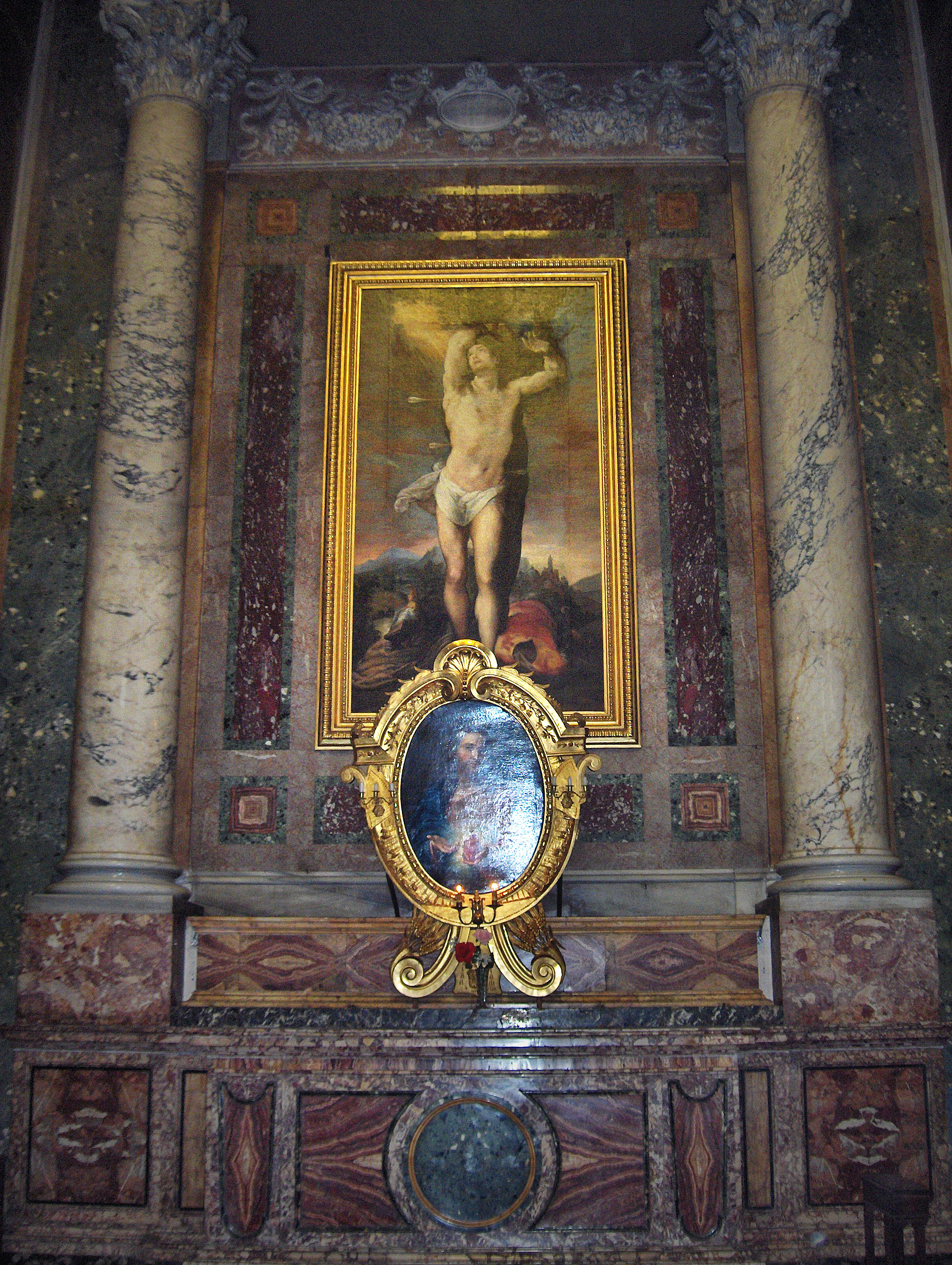 Altarpiece in the chapel of Saint Sebastian in the church Sant'Andrea della Valle, Rome, Italy; painting by Giovanni de' Vecchi (1614)